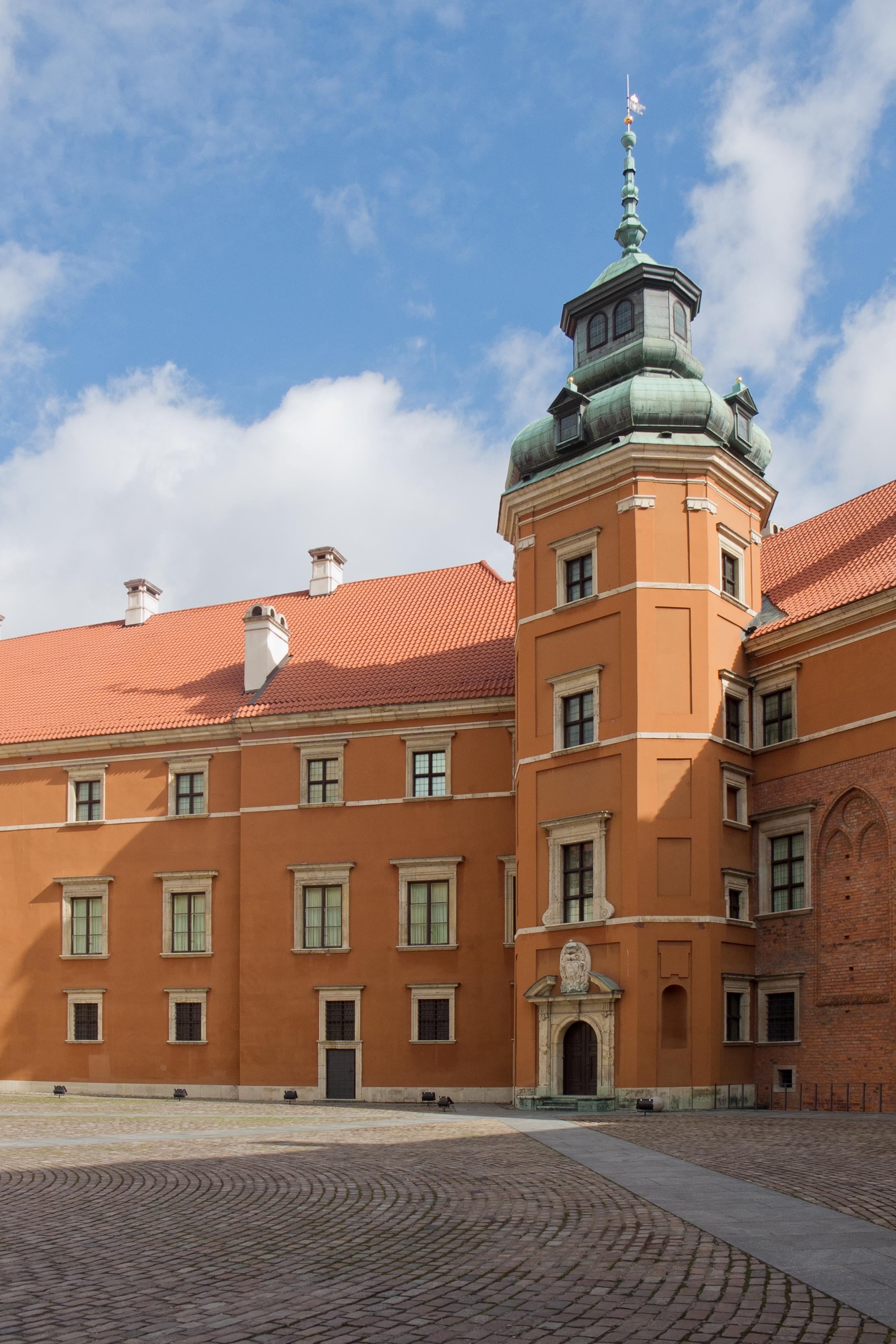 Royal Palace of Warsaw, Poland.